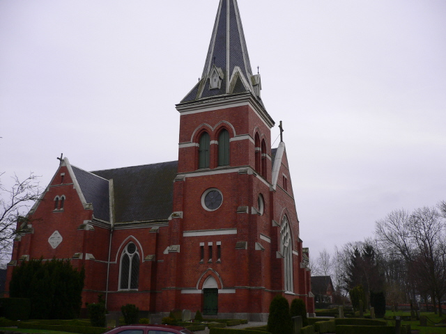 Mellan-Grevie church Source: taken by user dec 26th 2004